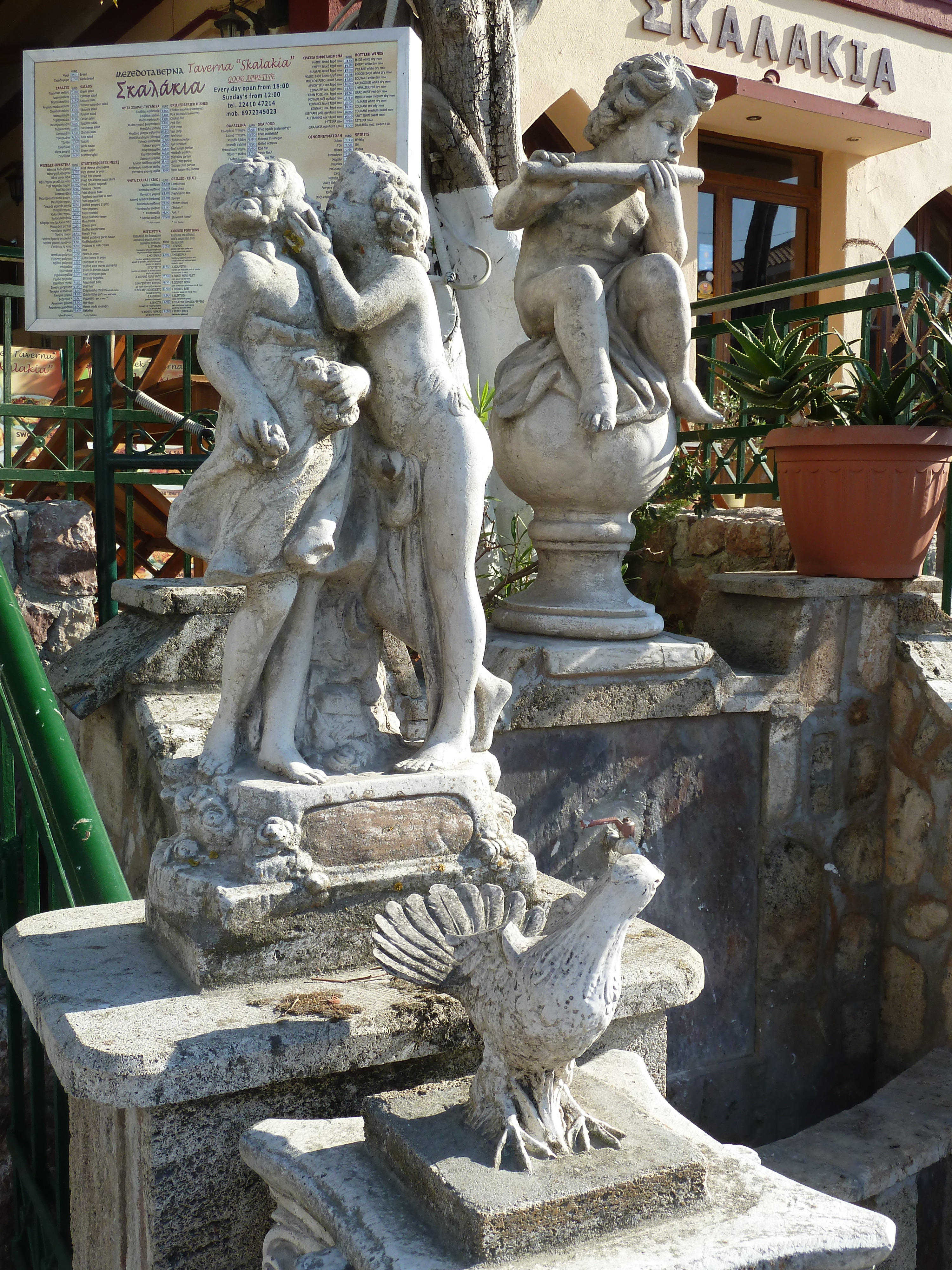 Well. Pastida, Rhodes, Greece.